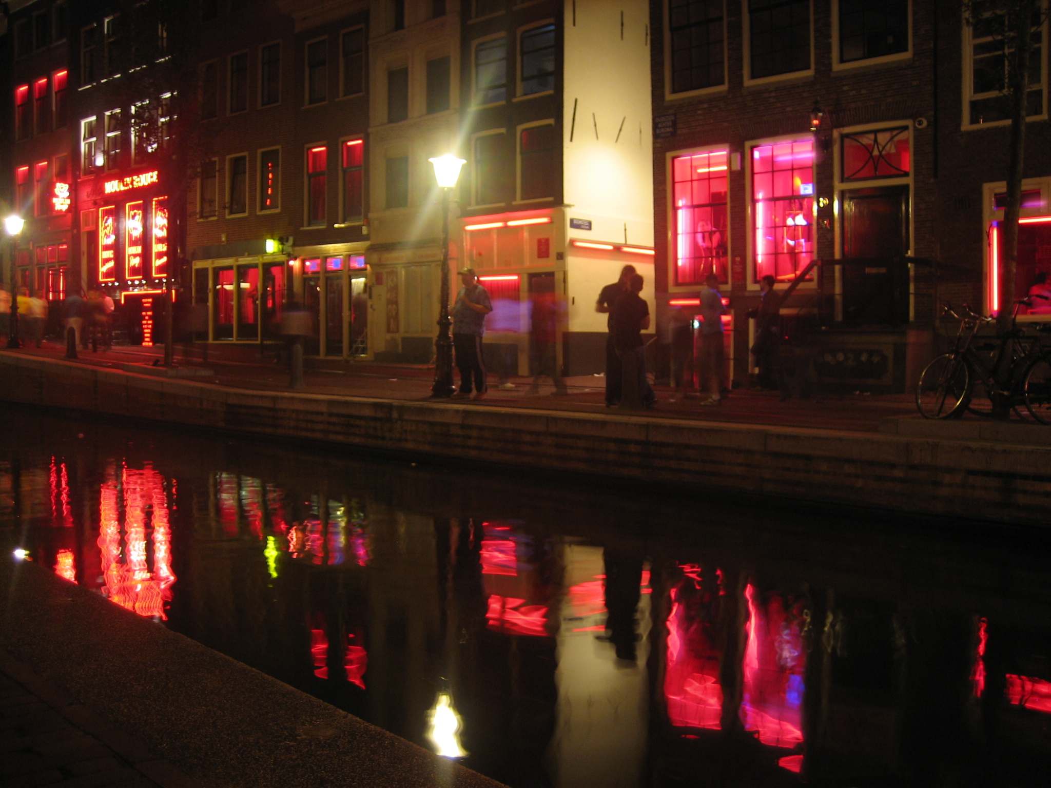 The red-light district in Amsterdam by night